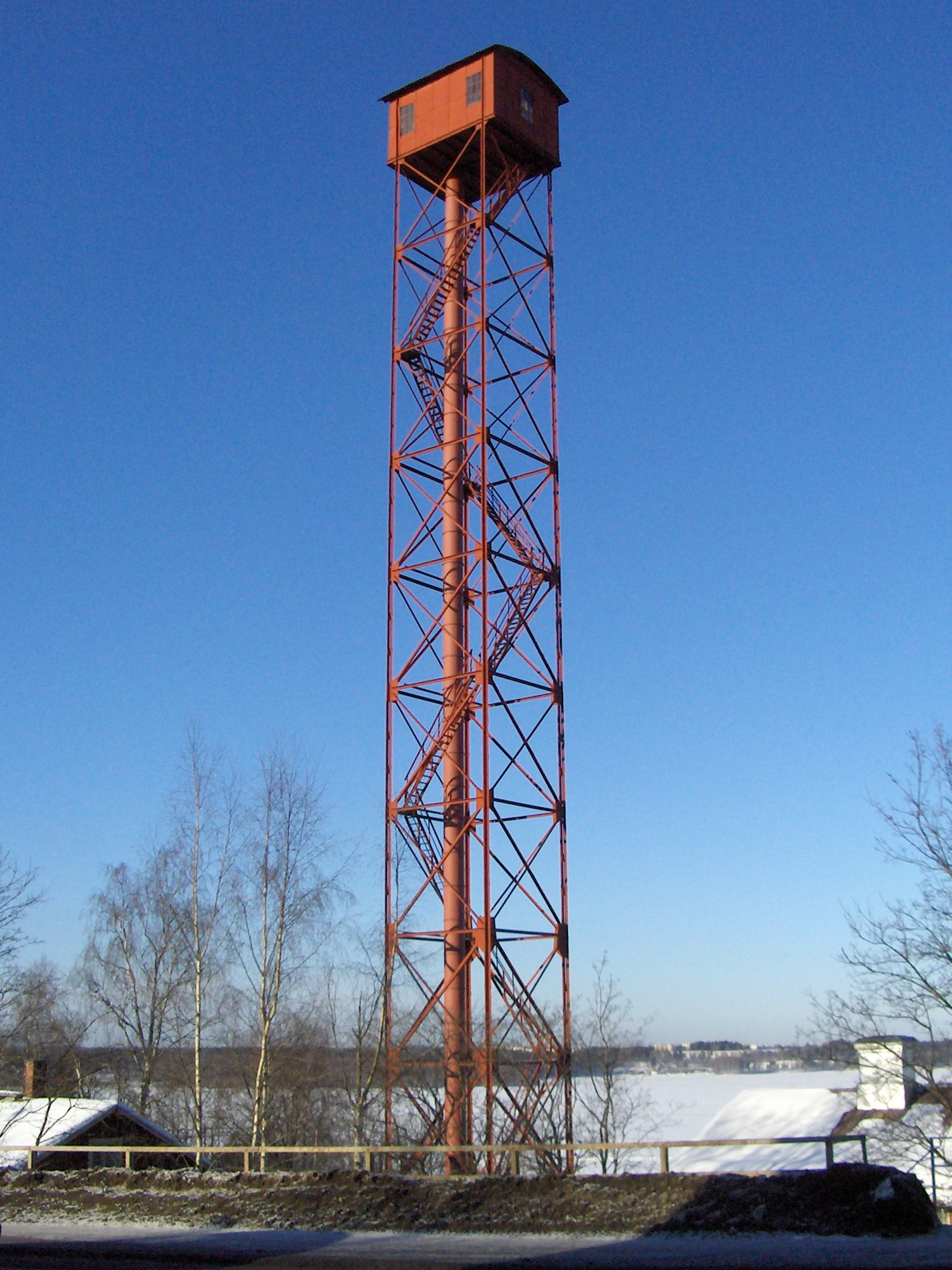 Haulitorni, old pellet factory in Tampere